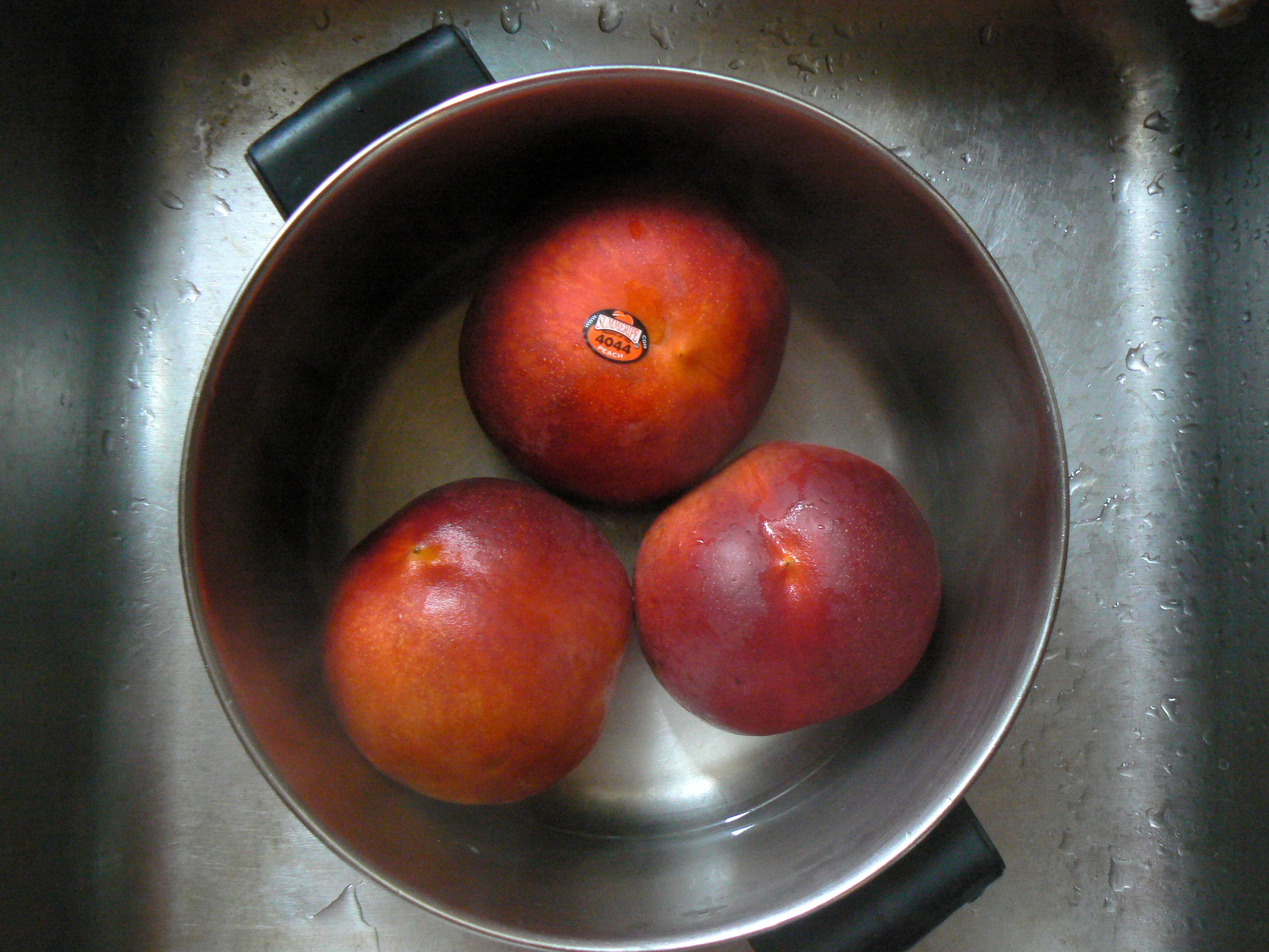 Parboiling peaches to remove their skins